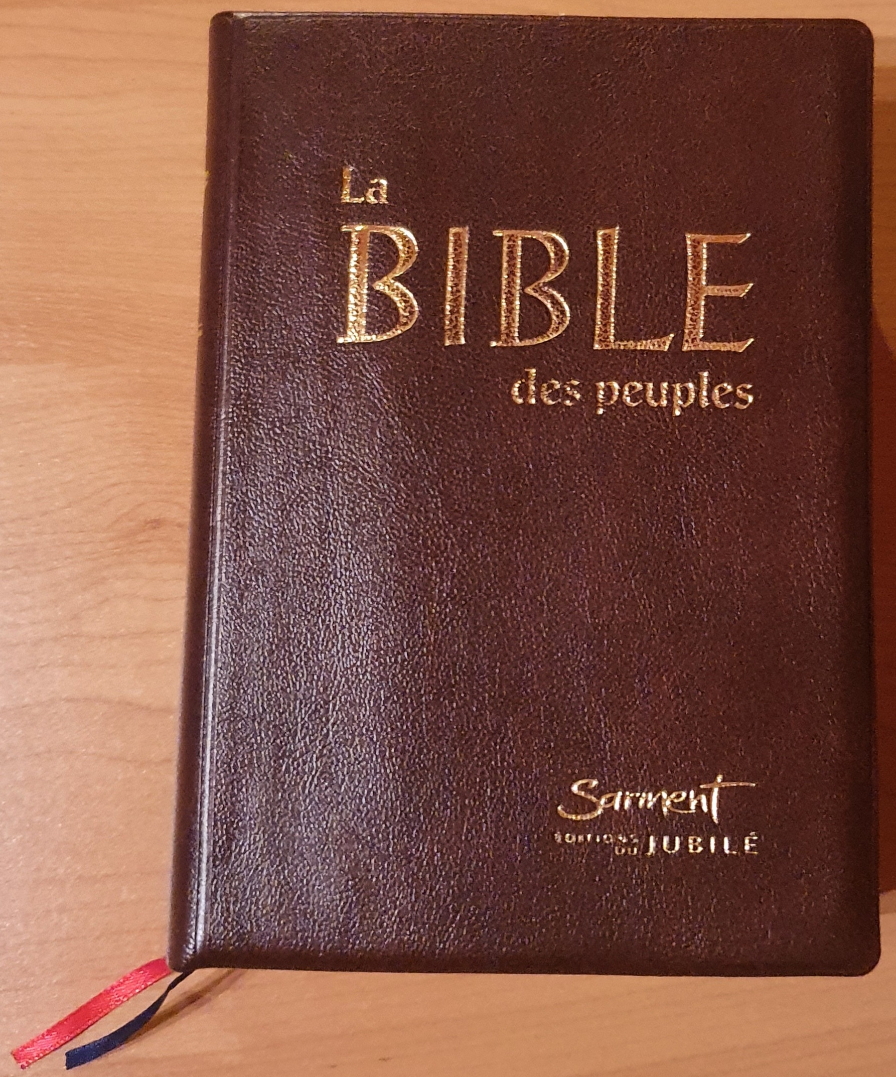 The French edition of the Christian Community Bible (La Bible des peuples (ed. n.d.)) in pocket format.